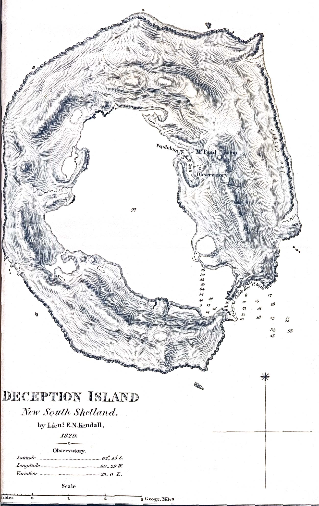 Map created on the first scientific expedition to Deception Island in 1829 under the command of captain Henry Foster. Originally published in Journal of the Royal Geographic Society Vol. 1 facing page 65.